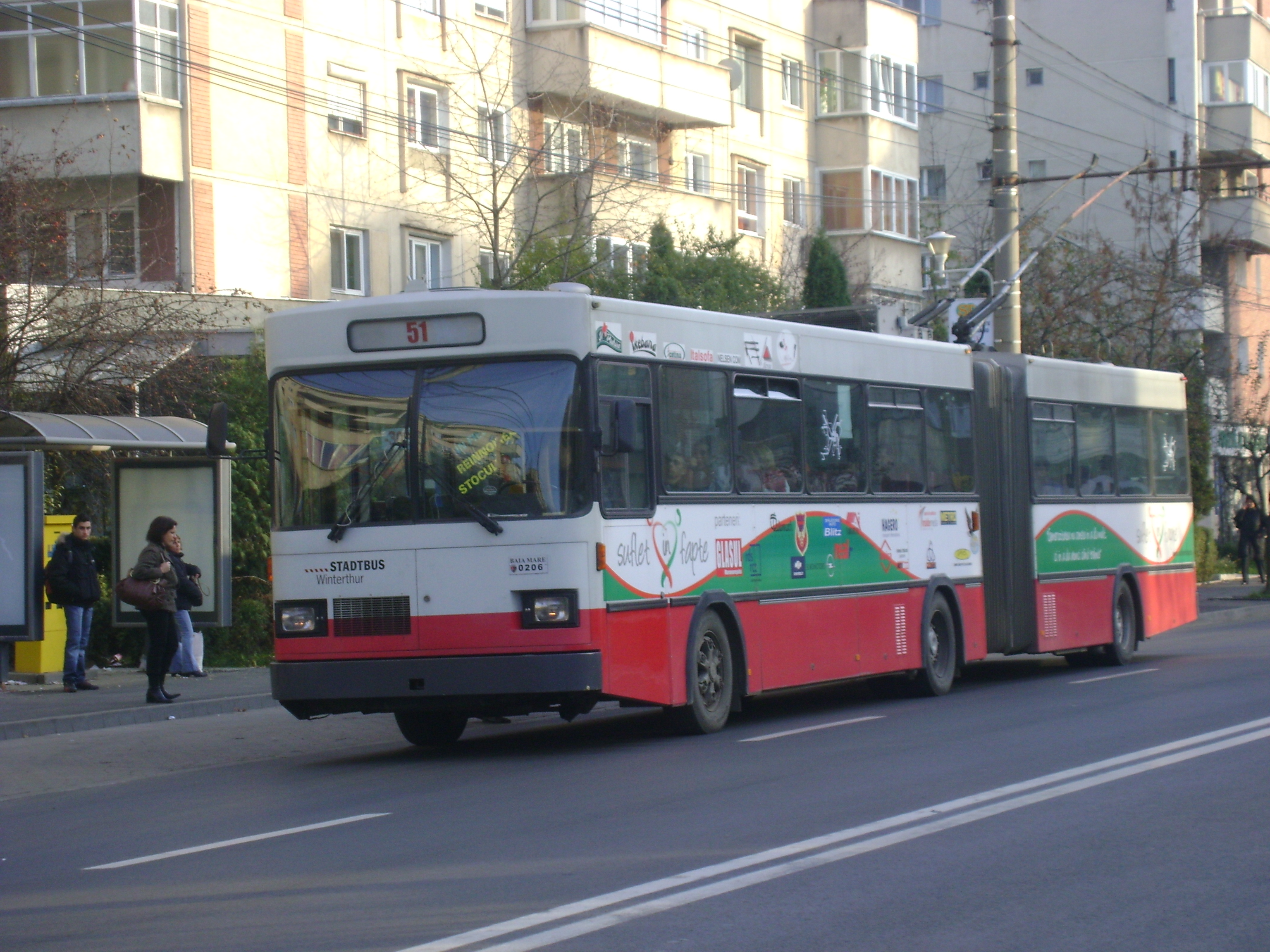 A trolleybus in Baia Mare, Romania. Built in 1982/83 by Saurer, trolleybus 0206 originally ran in Winterthur, Switzerland (as number 125), and it was still wearing Winterthur livery and lettering at the time of this photo.